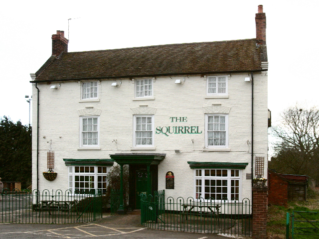 The Squirrel. The Squirrel is located in Aveley nr Bridgnorth along the A442. Didn't have time to visit but it is reported to be reasonably priced establishment with a beer and skittles atmosphere.